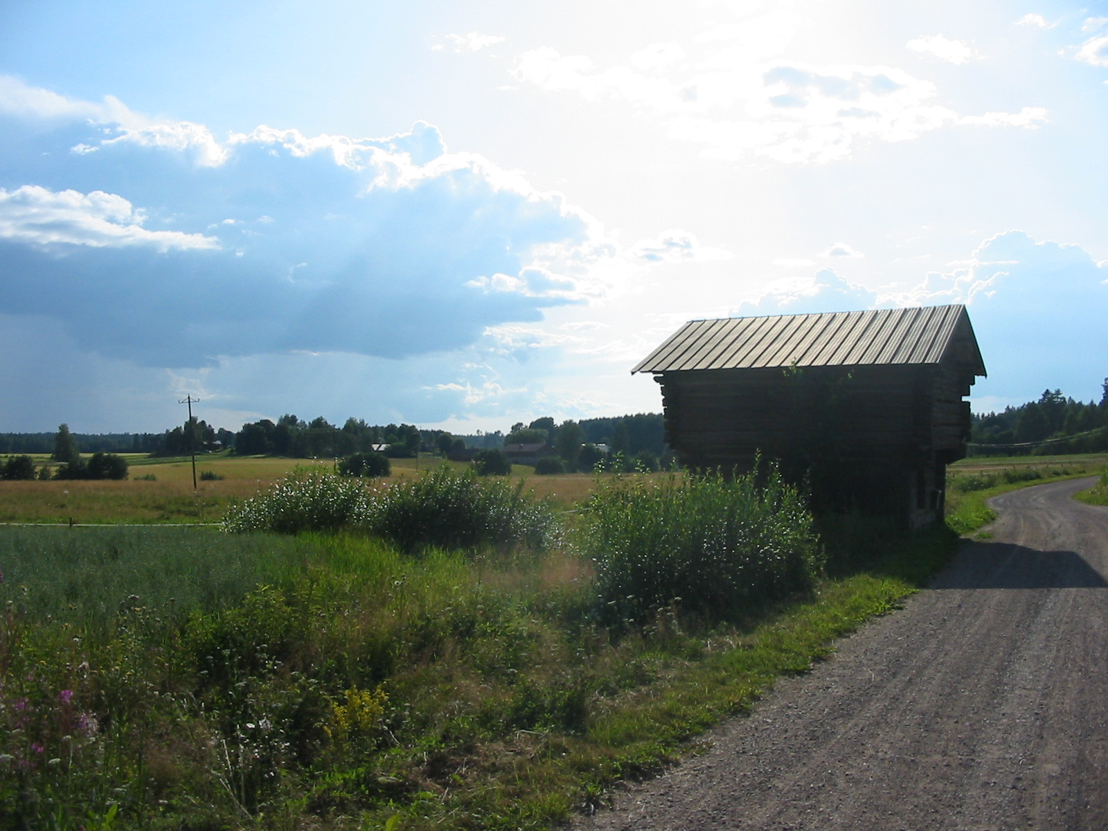 a wooden granary in the Village of Härjänoja, Somerniemi, Somero, Finland